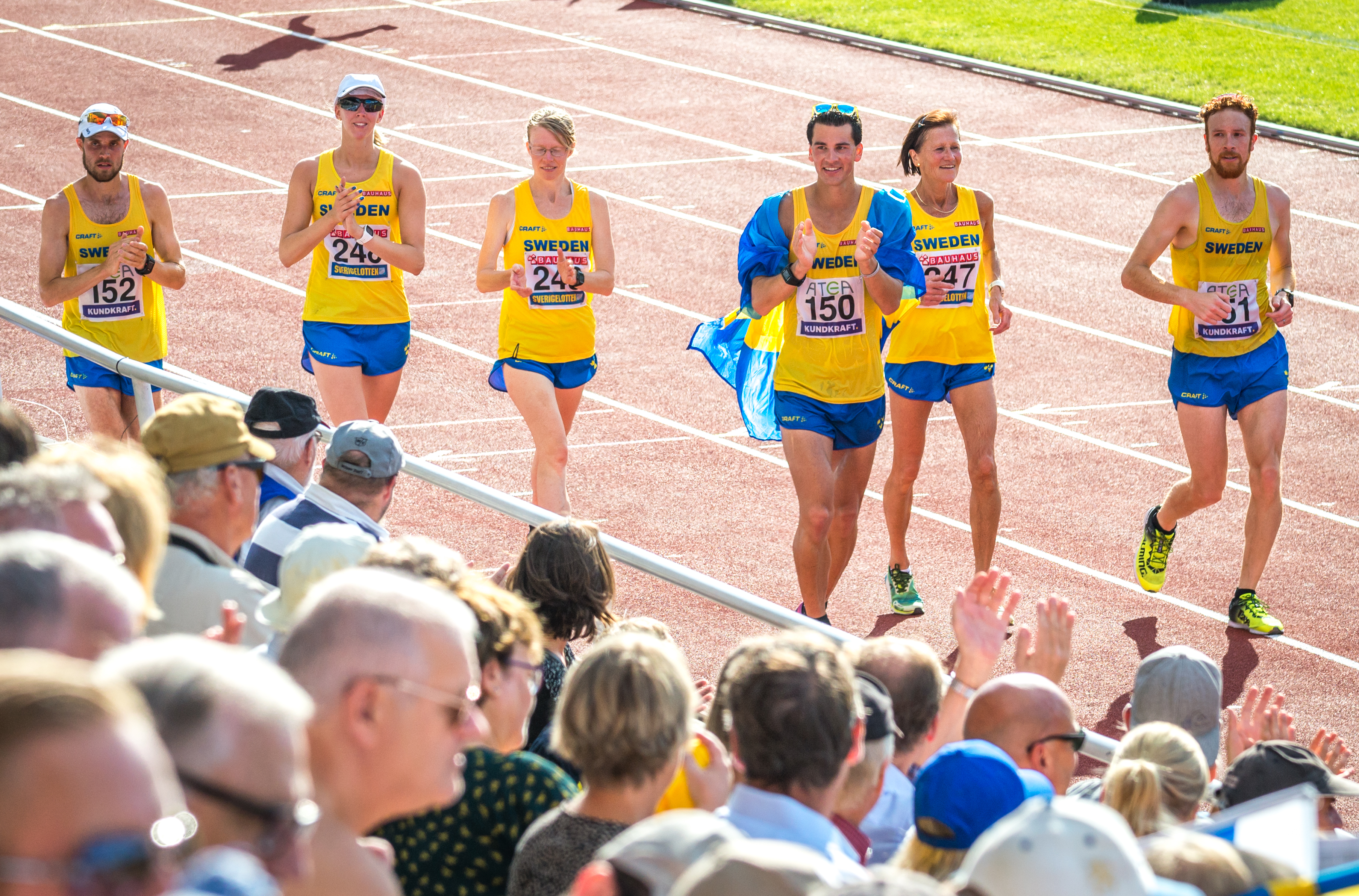 Swedish racewalking team during the Finland-Sweden athletics international 2019 at the Stockholm Stadium in August 2019. Perseus Karlström (150), Siw Karlström (247), Ato Ibáñez (151), Monica Svensson (249), Anders Hansson (152), Helena Sandmer (248).